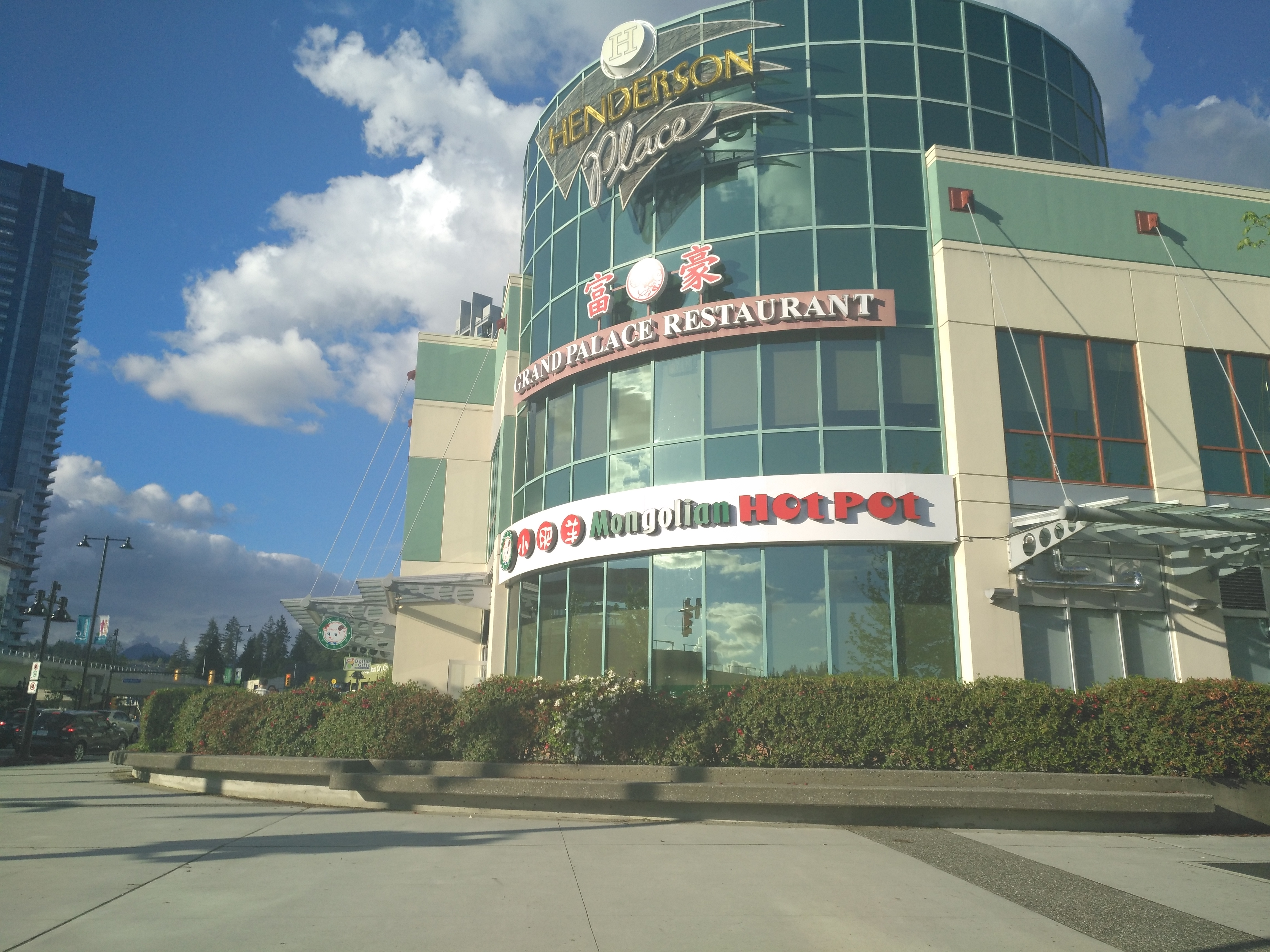 Little Sheep Restaurant in Coquitlam, BC, Canada. 中文（中国大陆）: 加拿大卑诗省高贵林市小肥羊餐厅